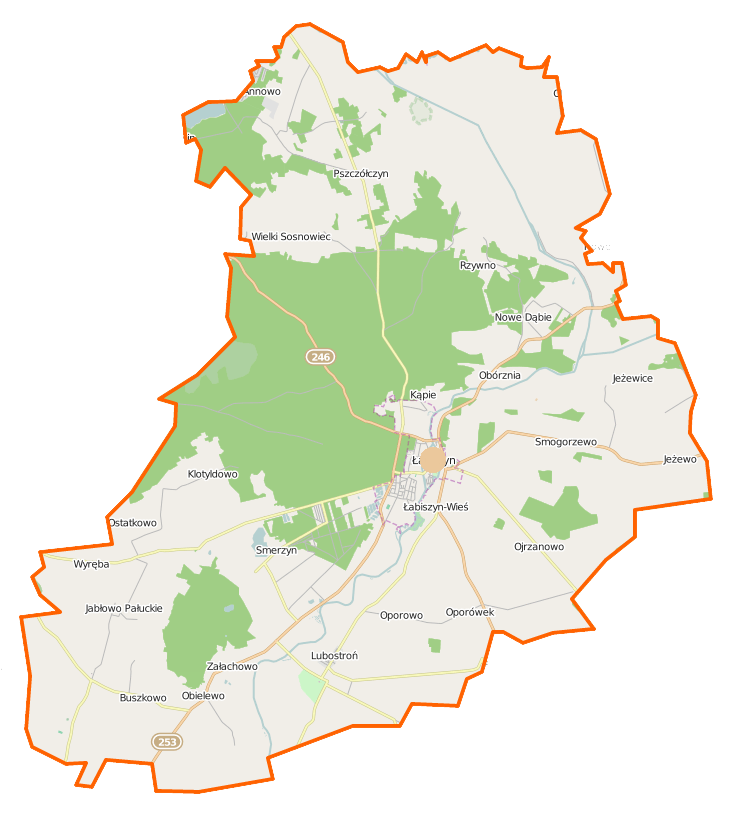 Map of Gmina Łabiszyn, Poland This map of Łabiszyn (gmina) was created from OpenStreetMap project data, collected by the community. This map may be incomplete, and may contain errors. Don't rely solely on it for navigation. Border coordinates53.047617.7718←↕→18.025852.8791